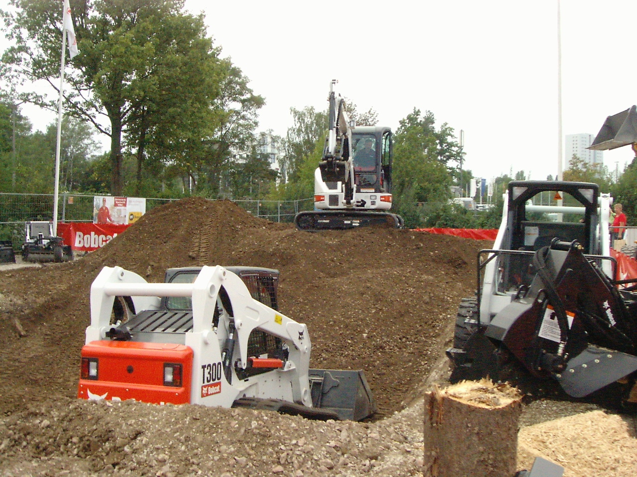 Description Bobcat demonstratie op de GaLaBau, Nürnberg Date15 September 2006SourceOwn workAuthorJan Clevering Bobcat demonstratie op de GaLaBau, Nürnberg